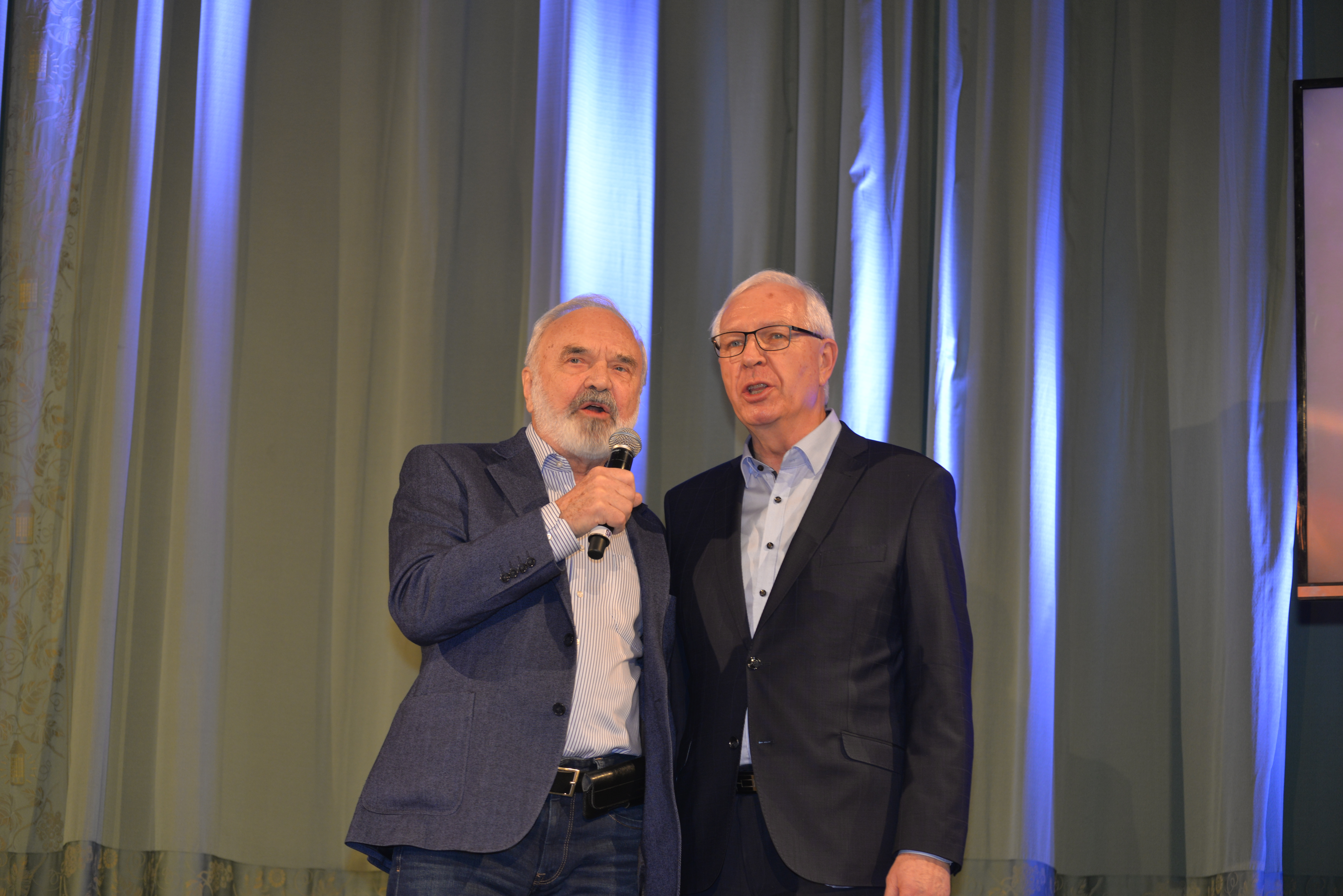 Jiří Drahoš during pre-election meeting in Lucerna cinema